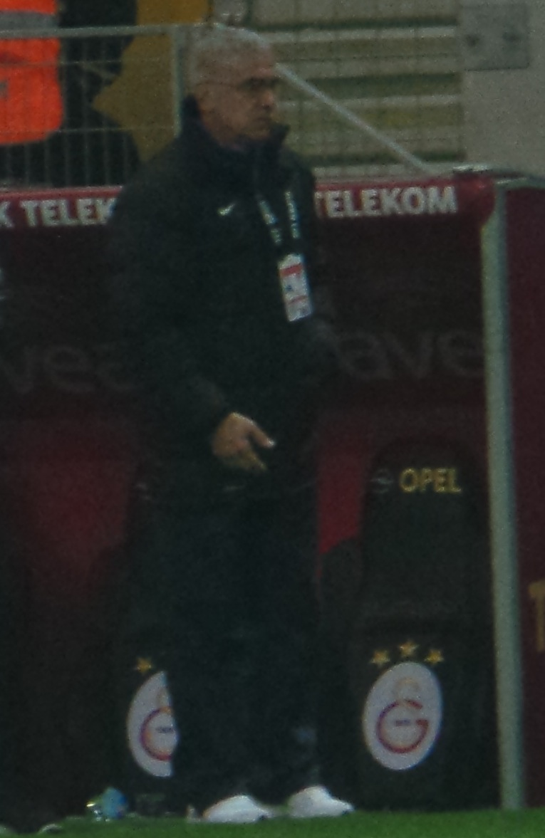 Irfan Saraloğlu